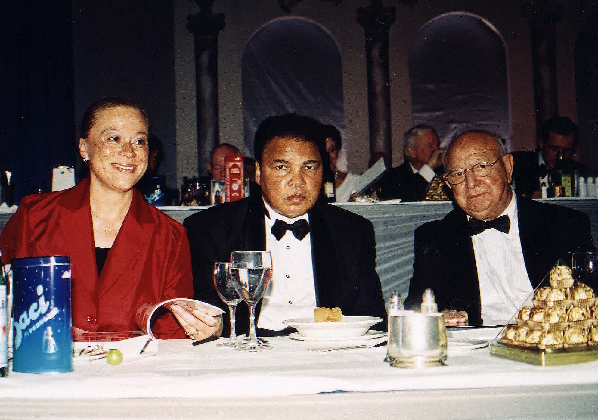 From N.I.A.F Wash D.C. Oct 28 2000